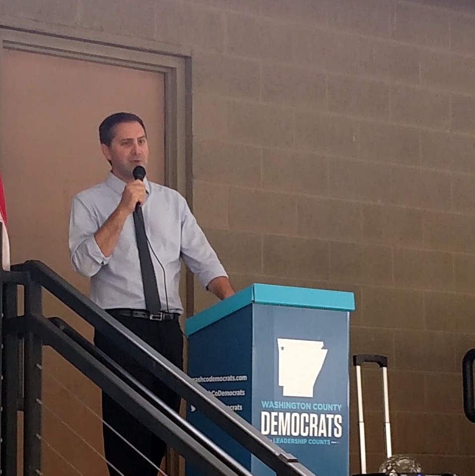 Greg addresses a rally of the Washington County Democrats at Shiloh Square in Springdale, Arkansas